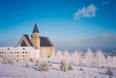 Photo of Švč. Mergelės Marijos Krikščionių Pagalbos church.